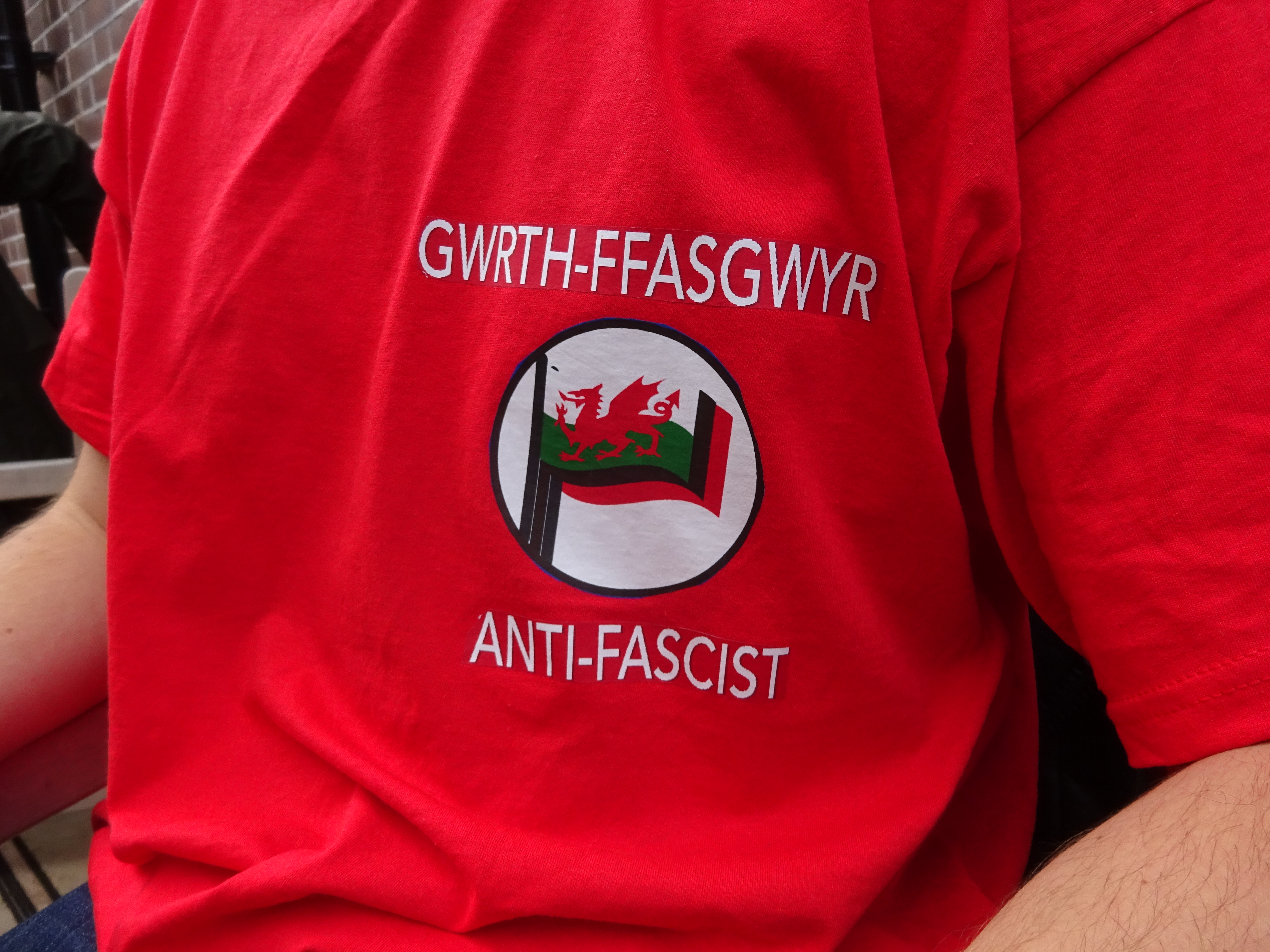 Anti-Fascist T-shirt at the AUOB march for Independence at Merthyr, Wales. The third AUOB Cymru National March for Welsh Independence, Merthyr town center, 7 September 2019.